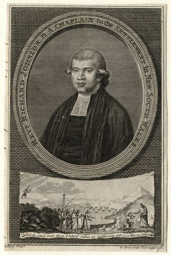 Richard Johnson (c1756-1827)